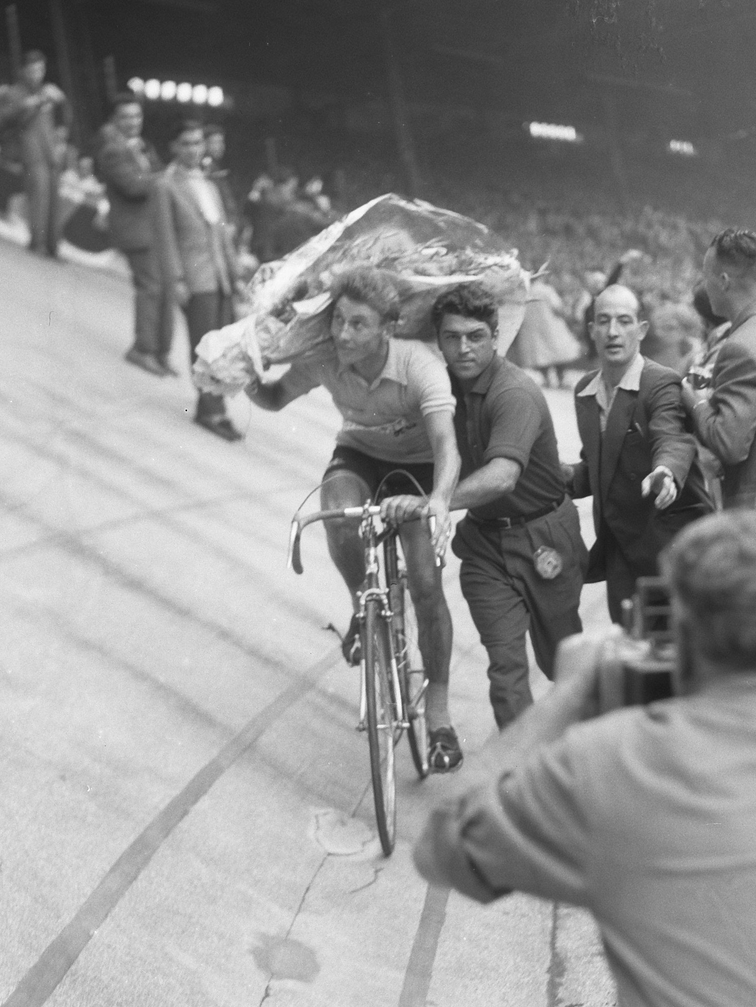 Finish Tour de France in the Parc des Princes in Paris. Winner Jacques Anquetil. Date: 20 juli 1957